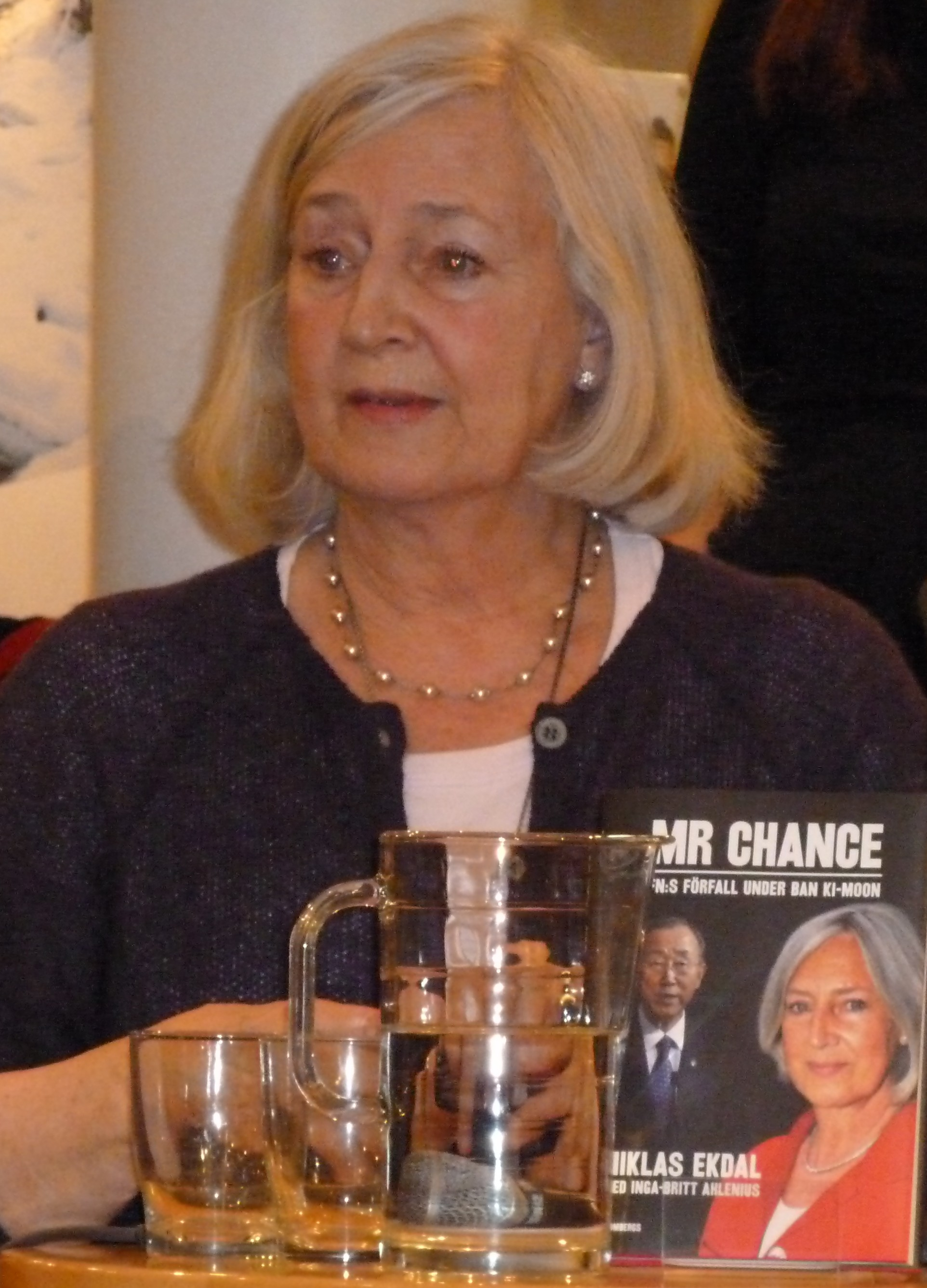 The Swedish civil servant Inga-Britt Ahlenius, presenting her, co-written with Niklas Ekdal, regarding her work at Auditer General at the United Nations, the book is highly critical regarding Secretary General Ban Ki-moon leadership of the UN.